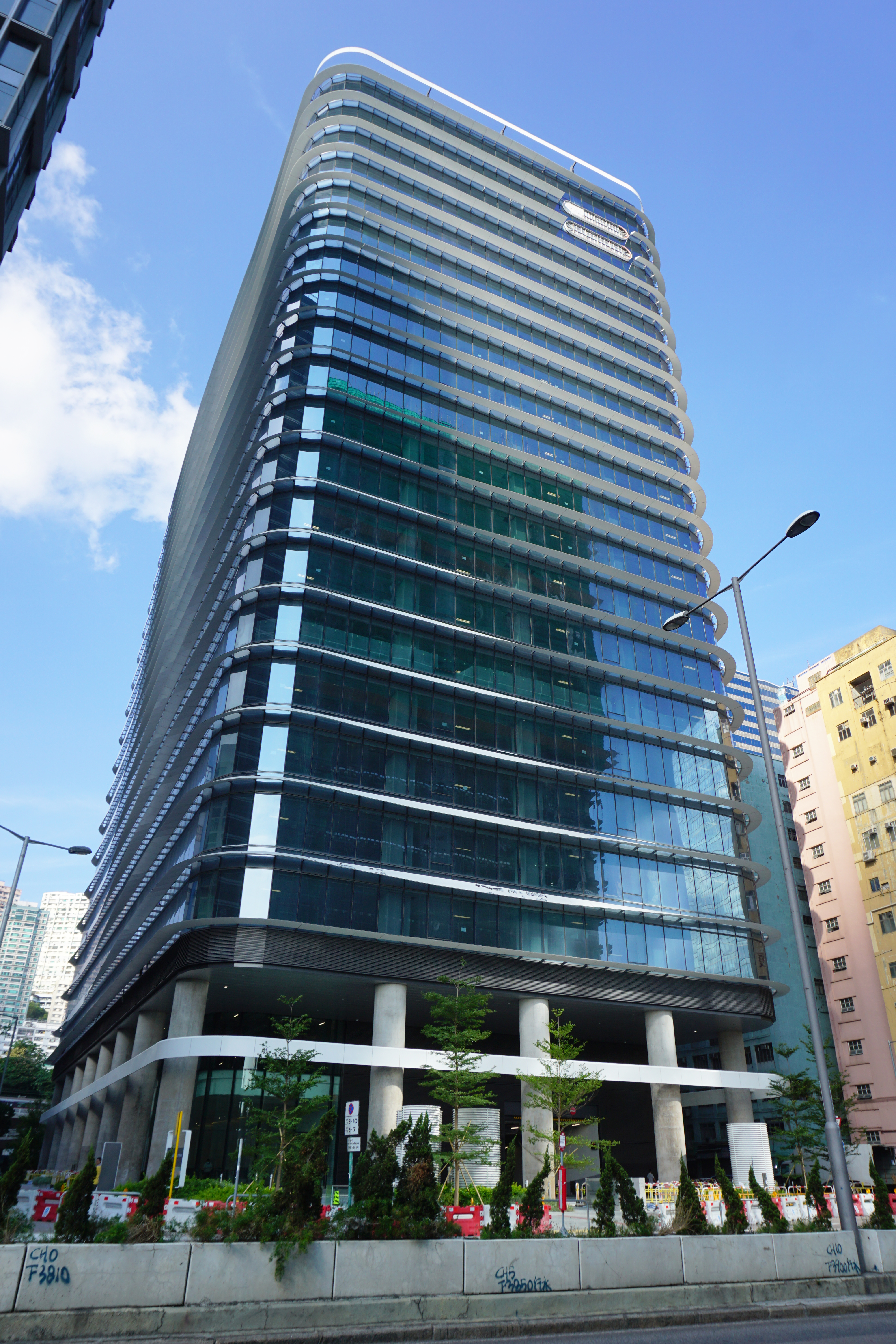 Mapletree Bay Point in Ngau Tau Kok, Hong Kong.